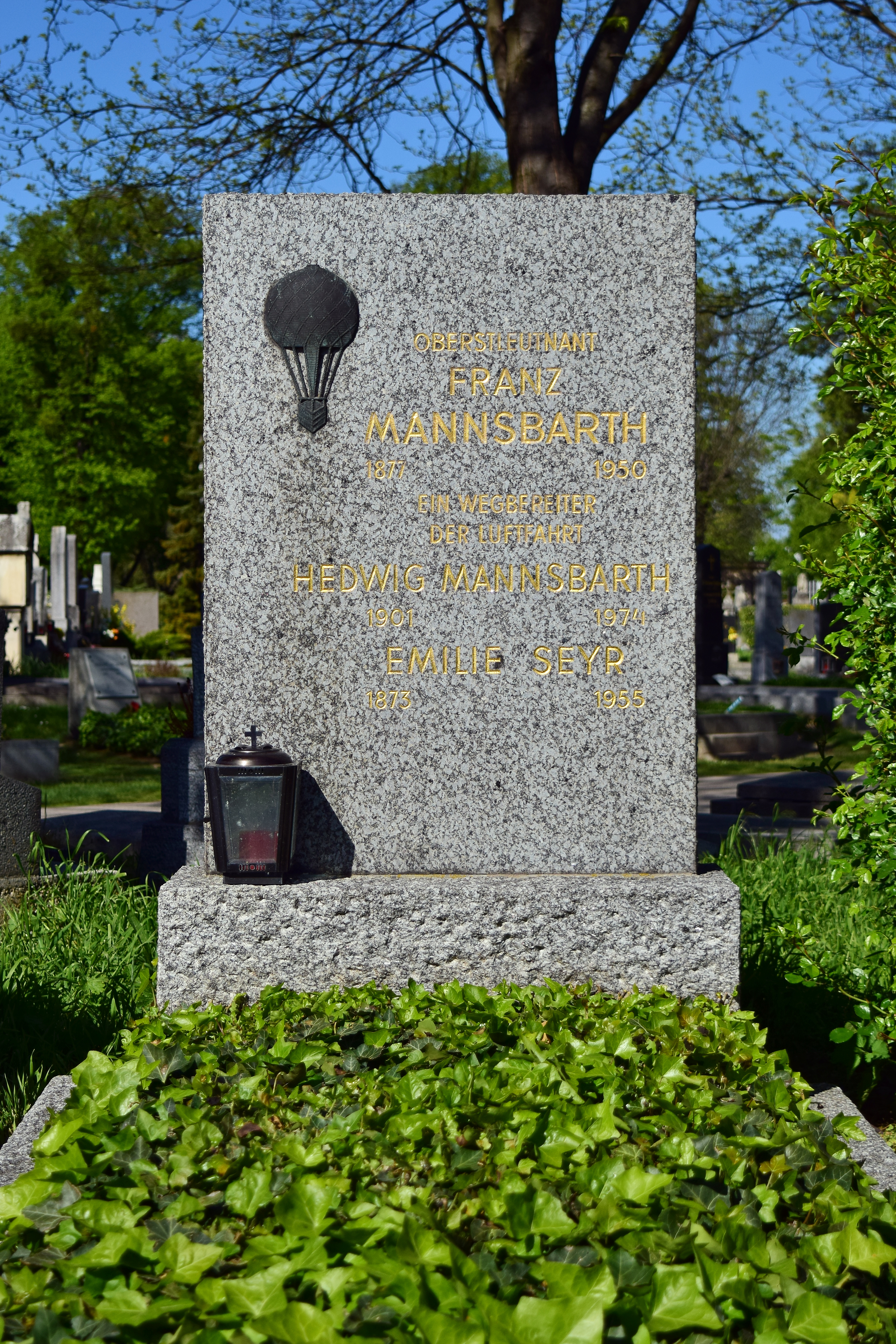 Grave of honor of Franz Mannsbarth at the Wiener Zentralfriedhof